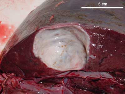 The fibrous capsule caused by Fascioloides magna in the liver parenchyma.